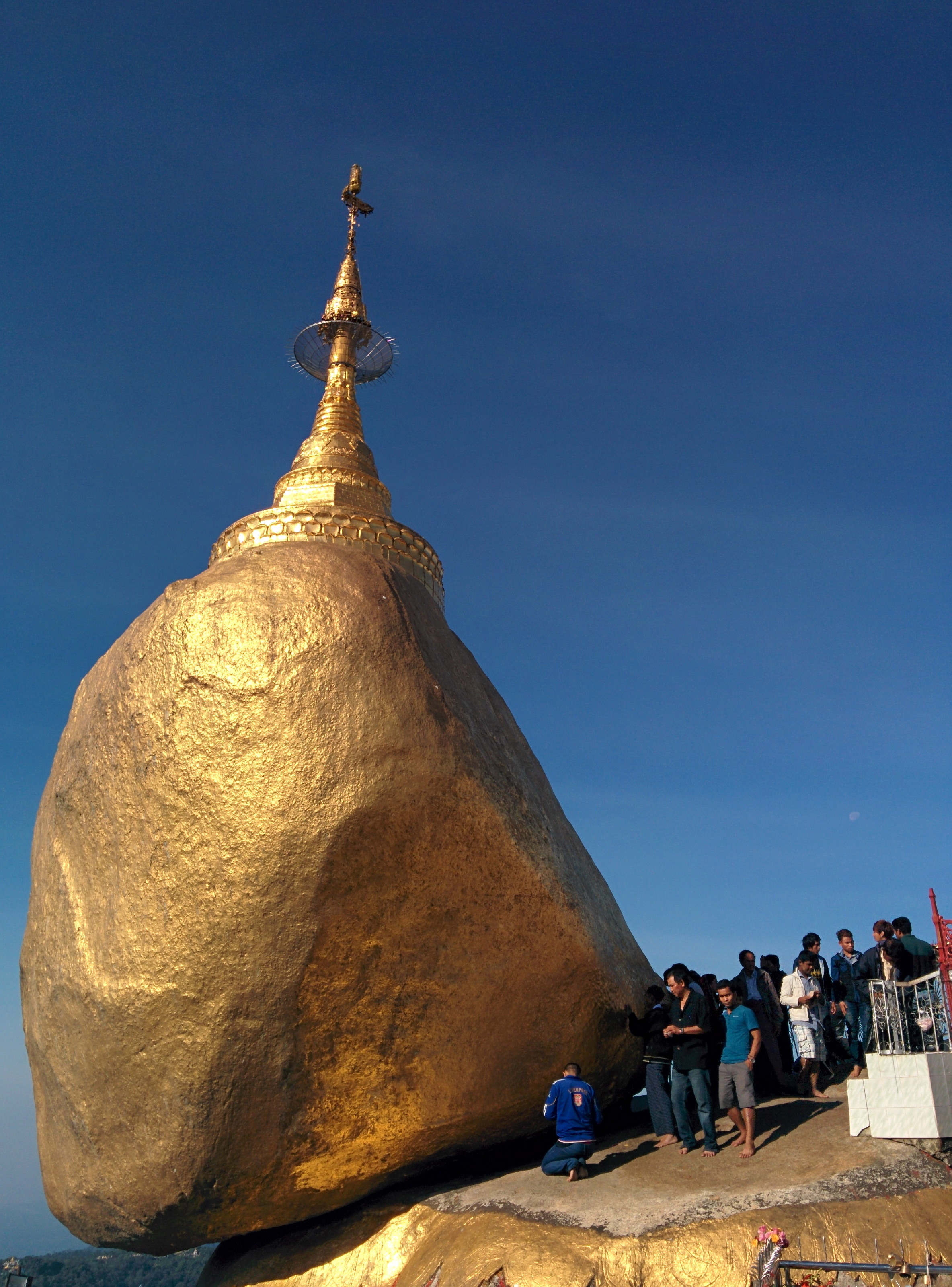 Men affixing gold leaf to Kyaiktiyo Pagoda, Myanmar.